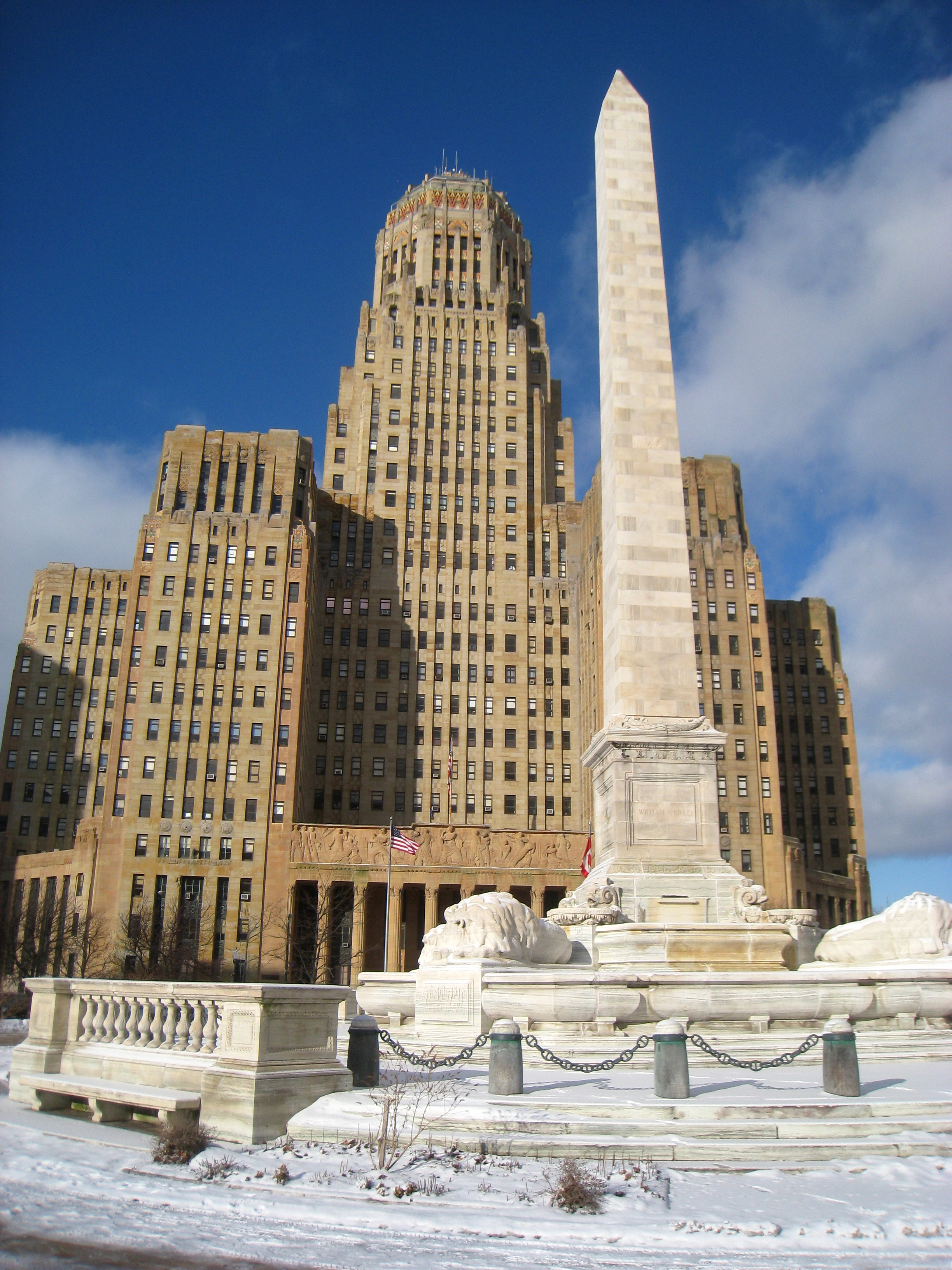 McKinley Monument in Niagara Square, Buffalo, New York. Architects Carrère and Hastings; sculptor Alexander Phimister Proctor. Dedicated September 5, 1907. Buffalo City Hall is in the background.